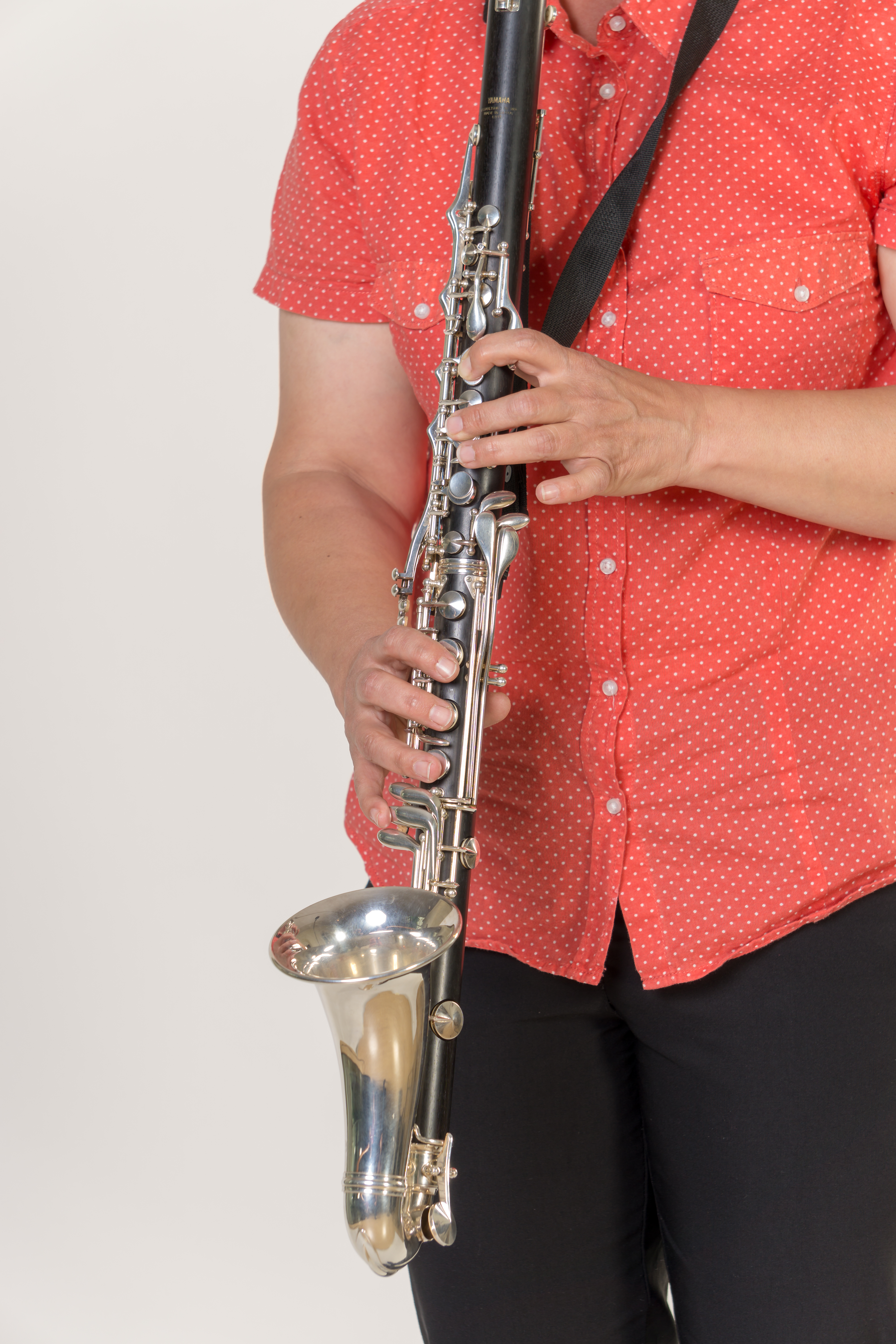 Wiki loves Music - Hamburg 2017: Musical Instruments up close. Alto clarinet